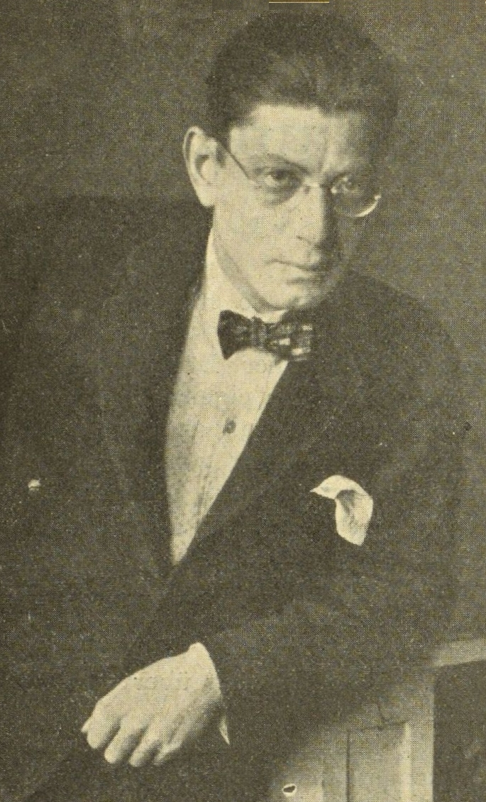 Arthur Ernst Rutra(1892–1942), Austrian expressionist playwright, writer, journalist, lecturer and translator